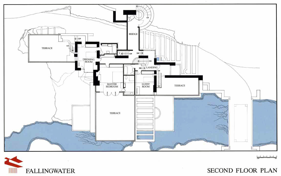 A floor plan of the innovative, lloyd-wright house, Fallingwater.